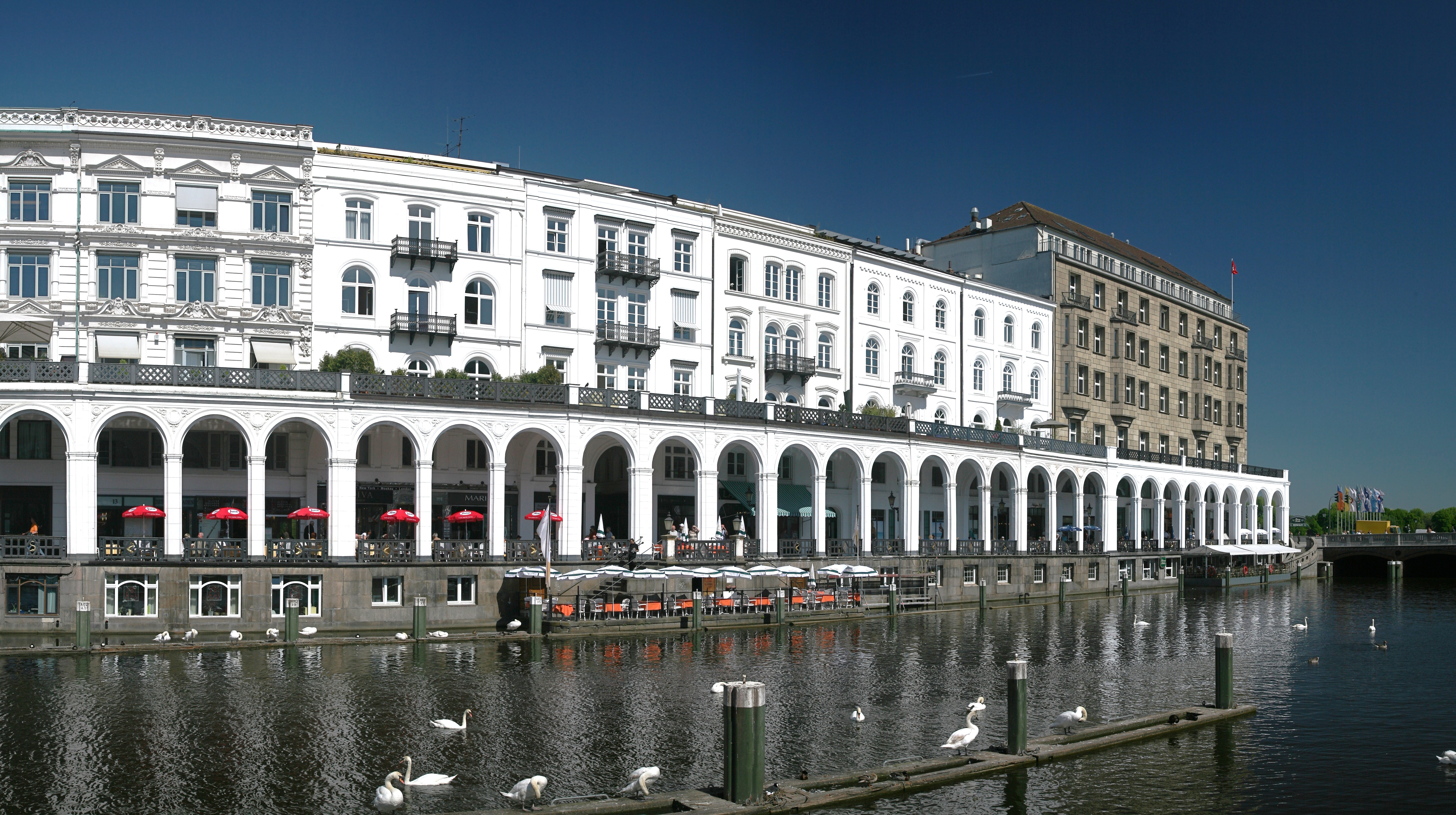 Alster Arcades (Alsterarkaden), Hamburg, Germany.